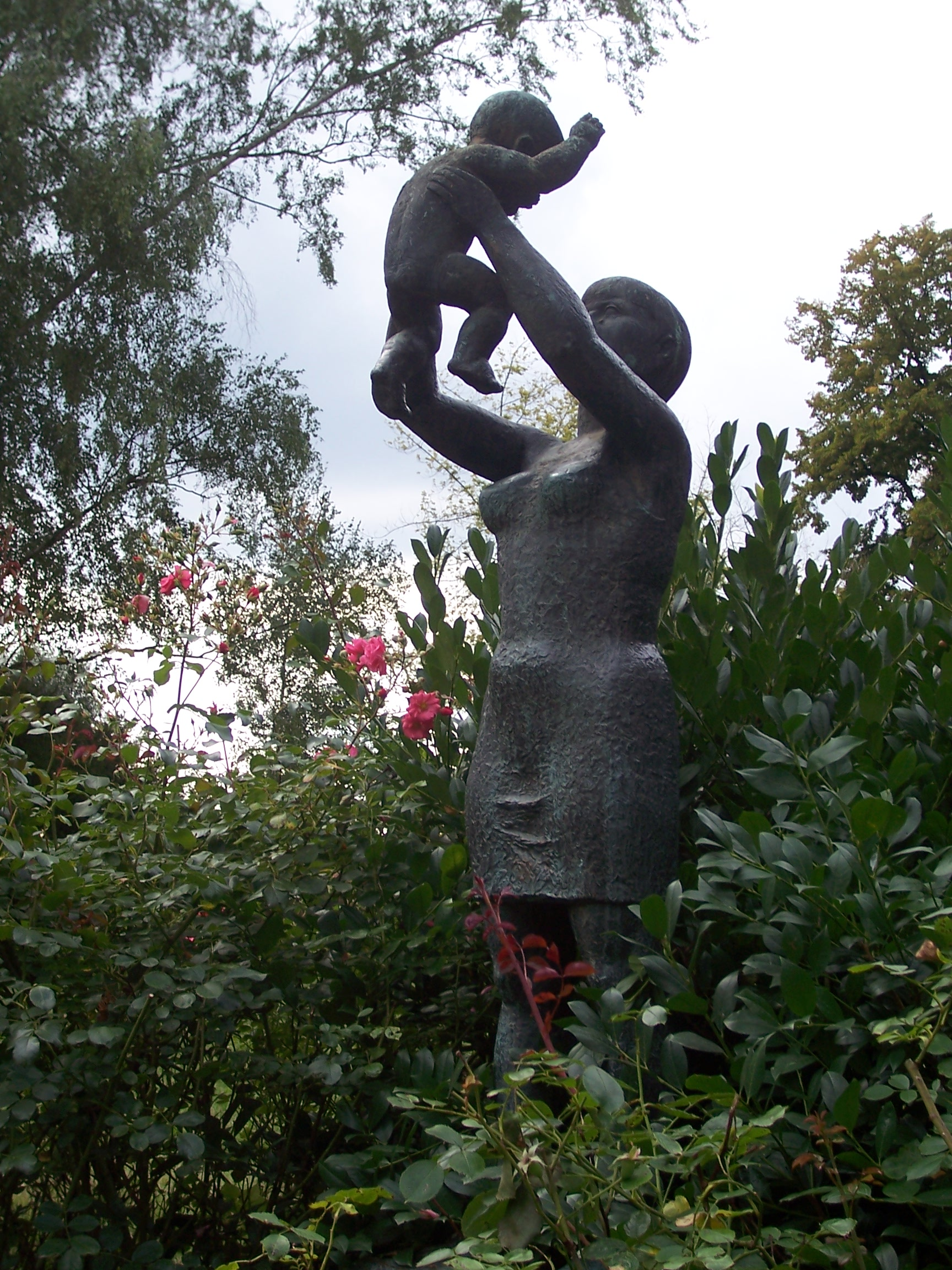 statue in the park of Eilenburg, Germany